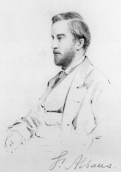 William Beauclerk, 10th Duke of St Albans